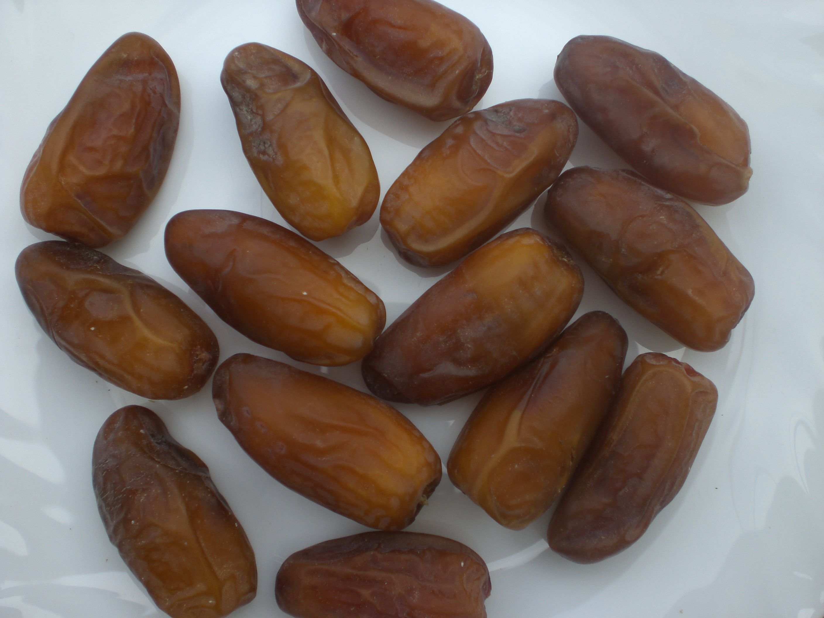 Dates from Tunisia (Kebili) called Deglet